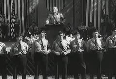 Fritz Kuhn, German American Bund rally (1938 or 1939); from: "Battle of the United States", Spies in US; FBI; J. Edgar Hoover, Story RG-60.4508, Tape 2820